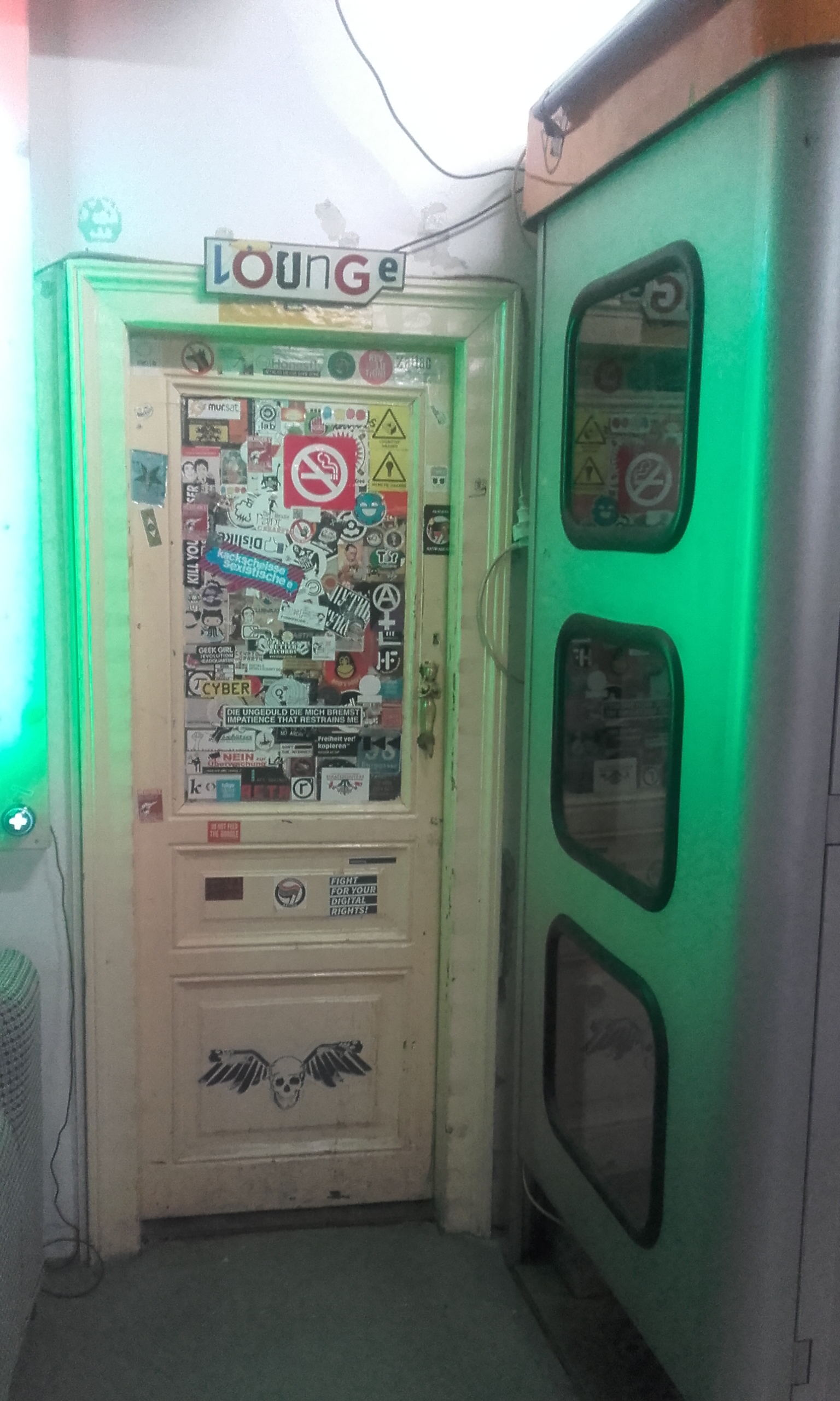 View from the interior of Metalab hackerpace